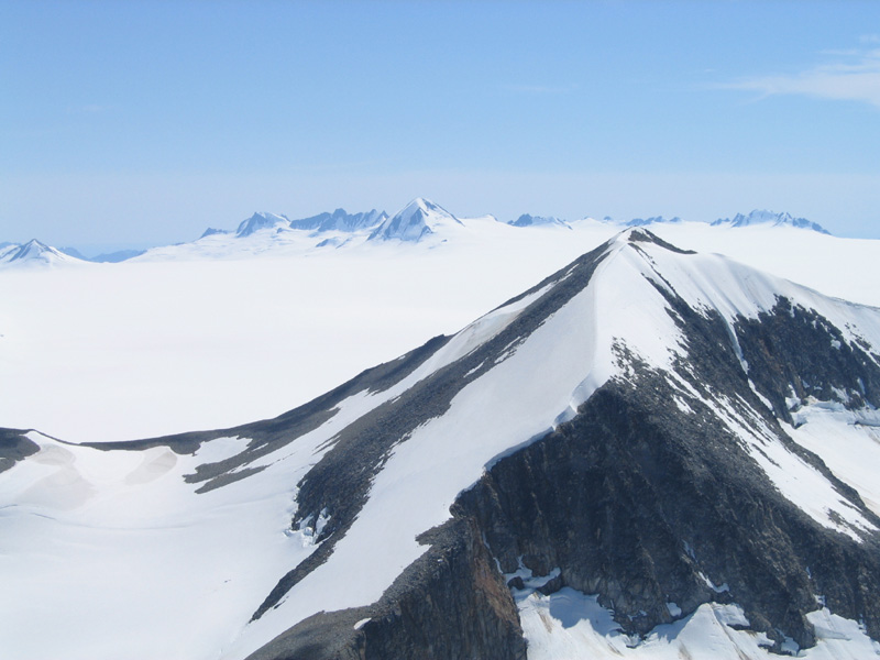 Harding Icefield